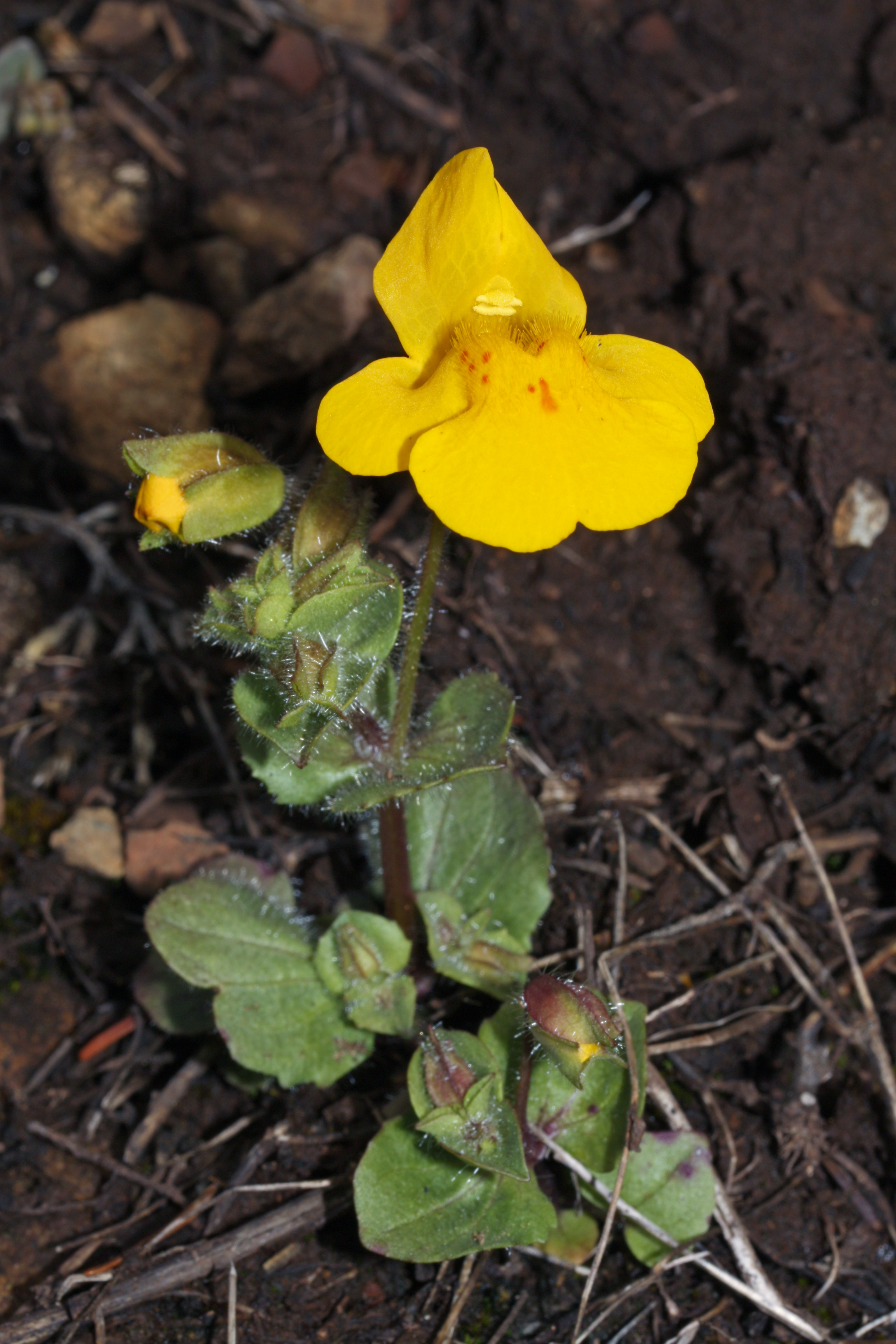 Seep Monkey-flower